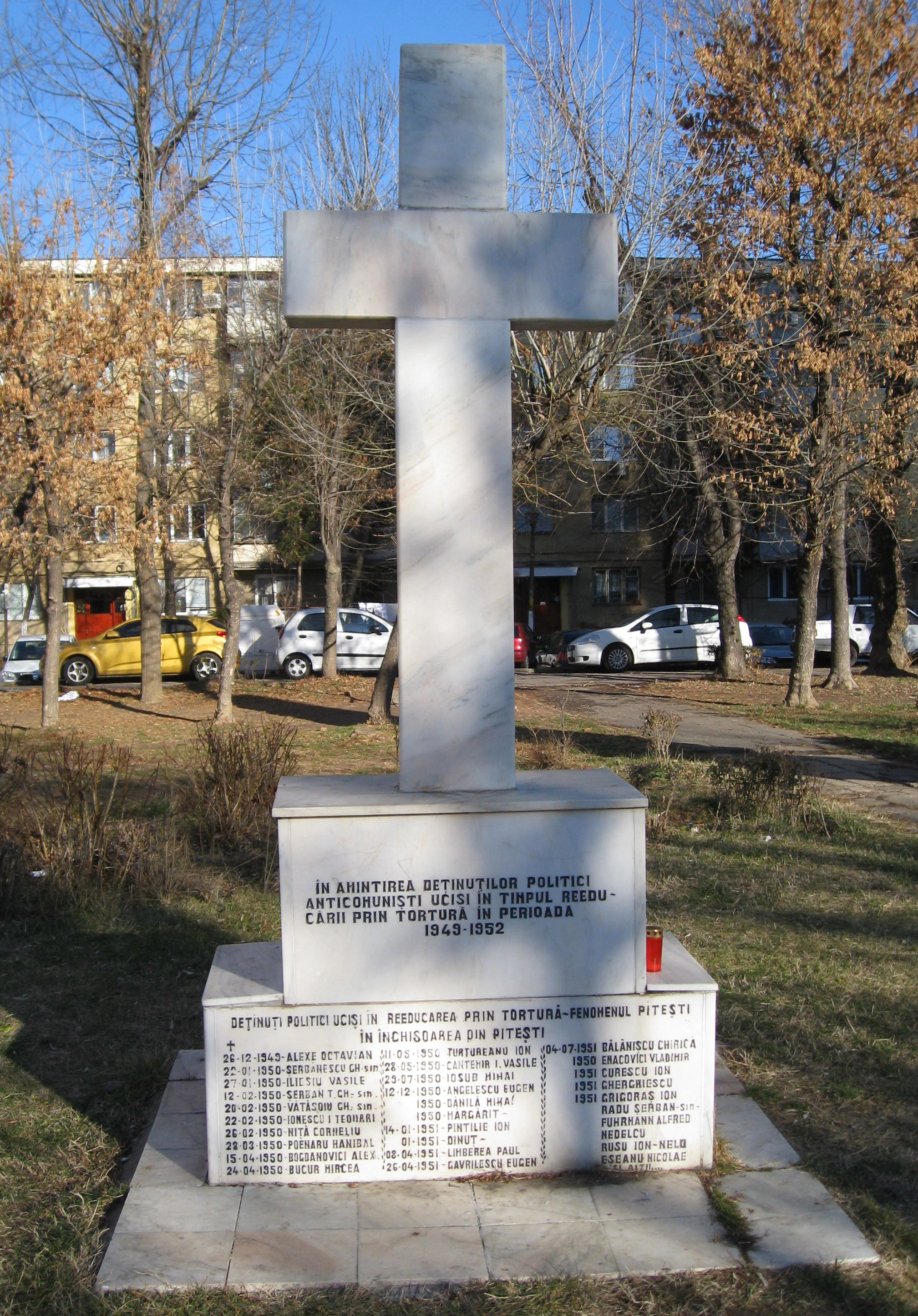 Cross at the memorial to the Piteşti prison in Romania